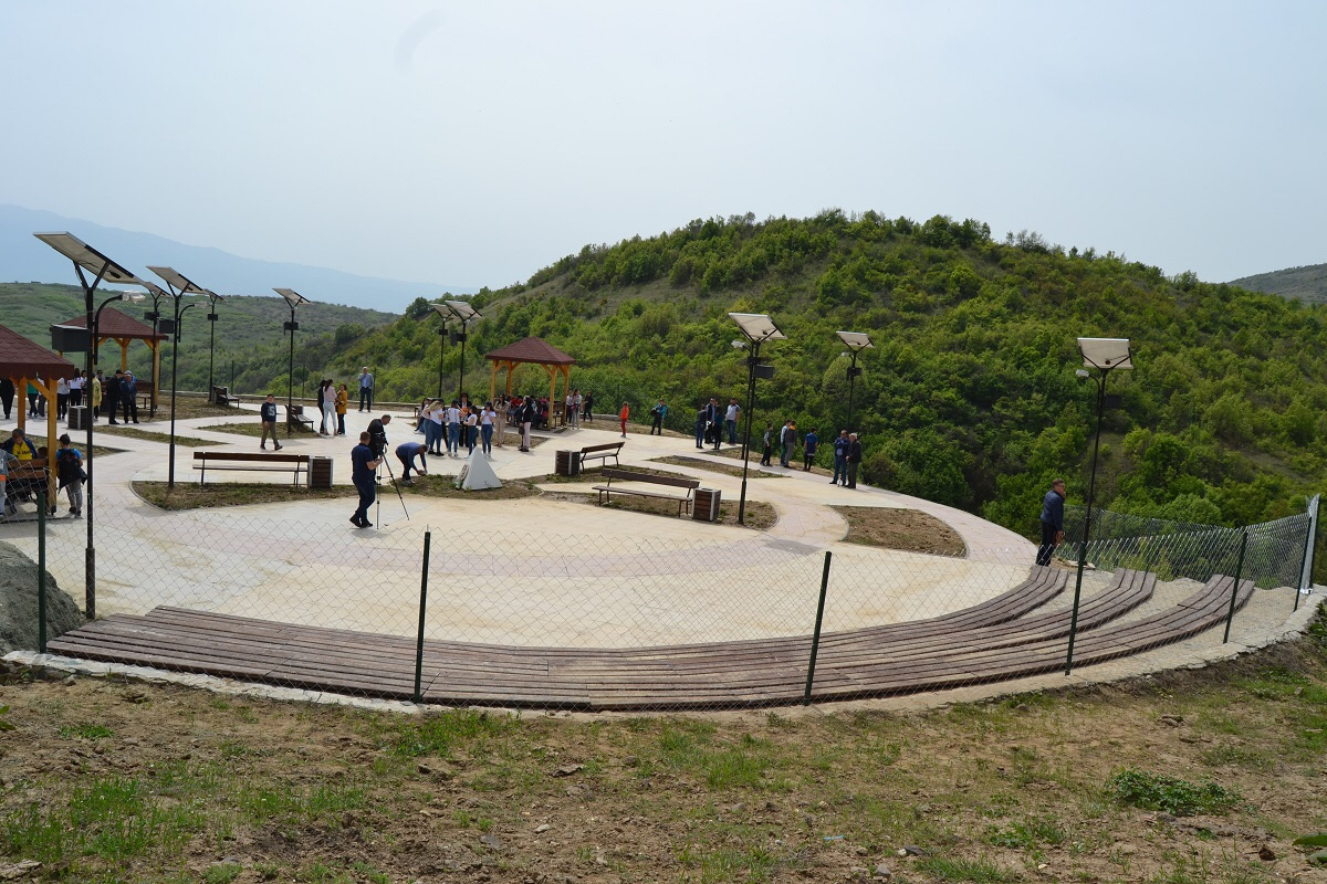 Memorial park near Svilanovo dedicated to the Macedonian revolutionary Nikola Karev